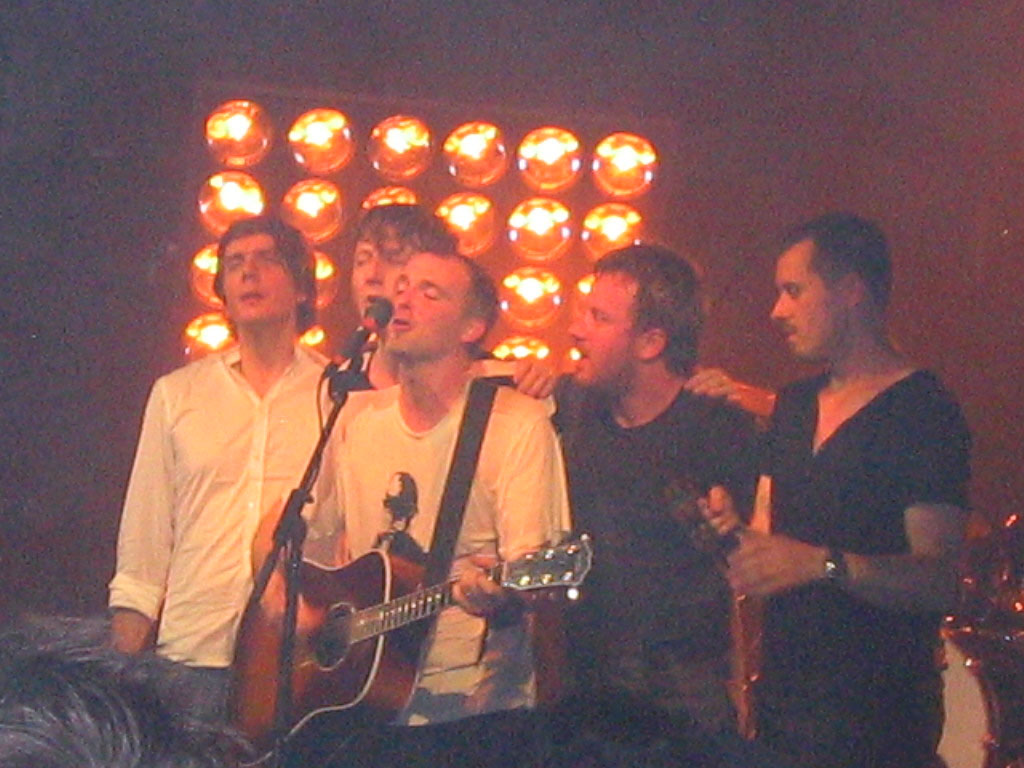 Travis the Scottish band